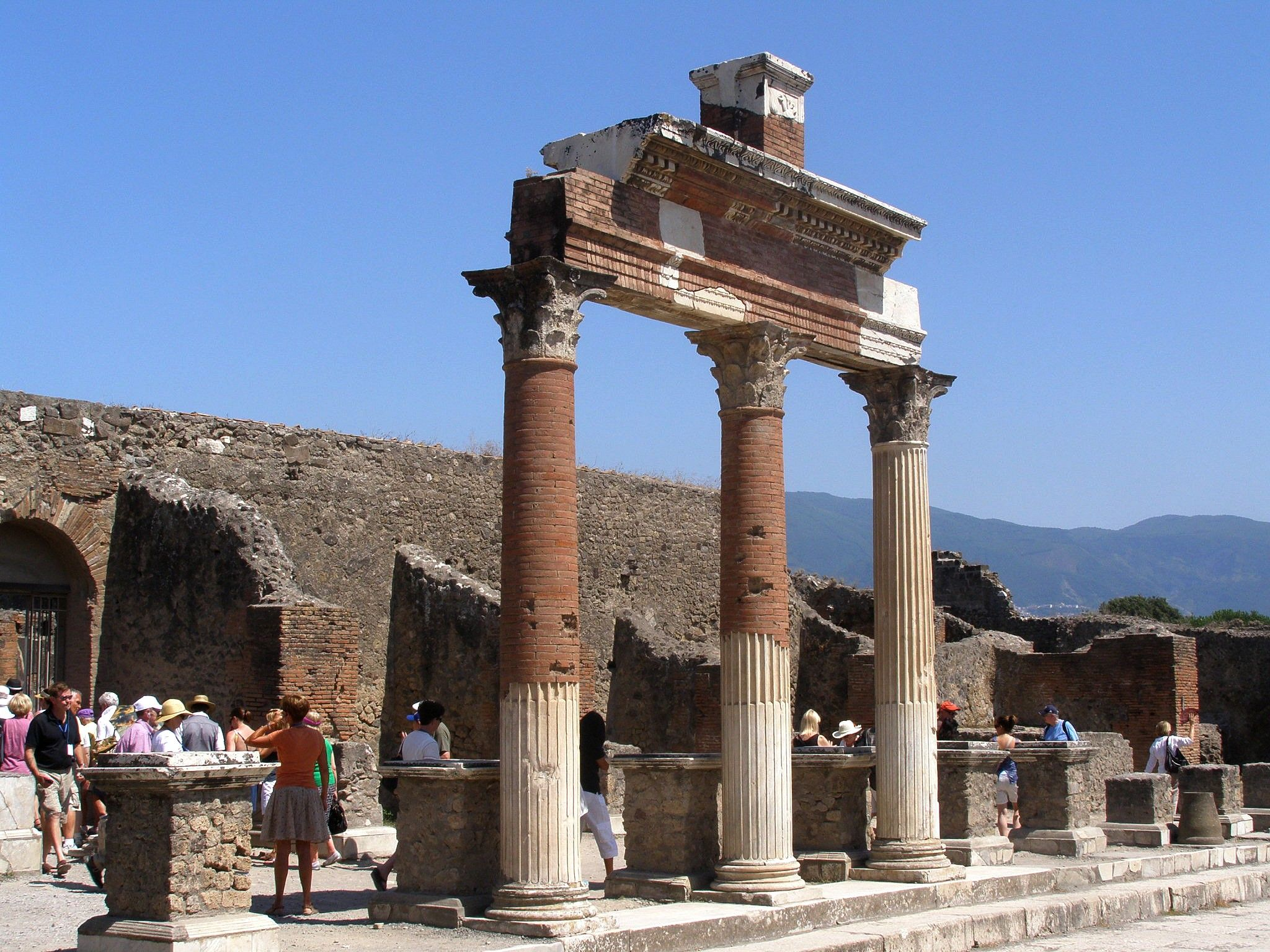 Remains of the monumental Corinthian Colonnade before entering the macella. The low pedestals served to house statues used to demonstrate the imperial cult (via 'Google Translate')